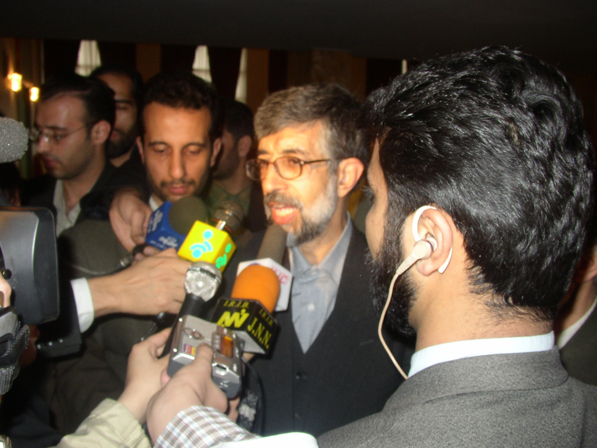 Ghoalmali Haddad Adel, Chairman of Islamic Republic of Iran Parliament